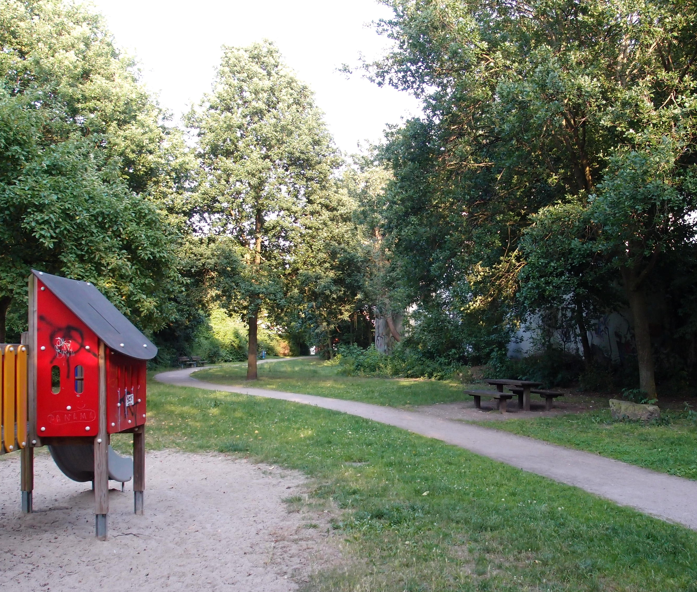 Henry-Vahl-Park, a very small public park in the Eimsbüttel borough of Hamburg.